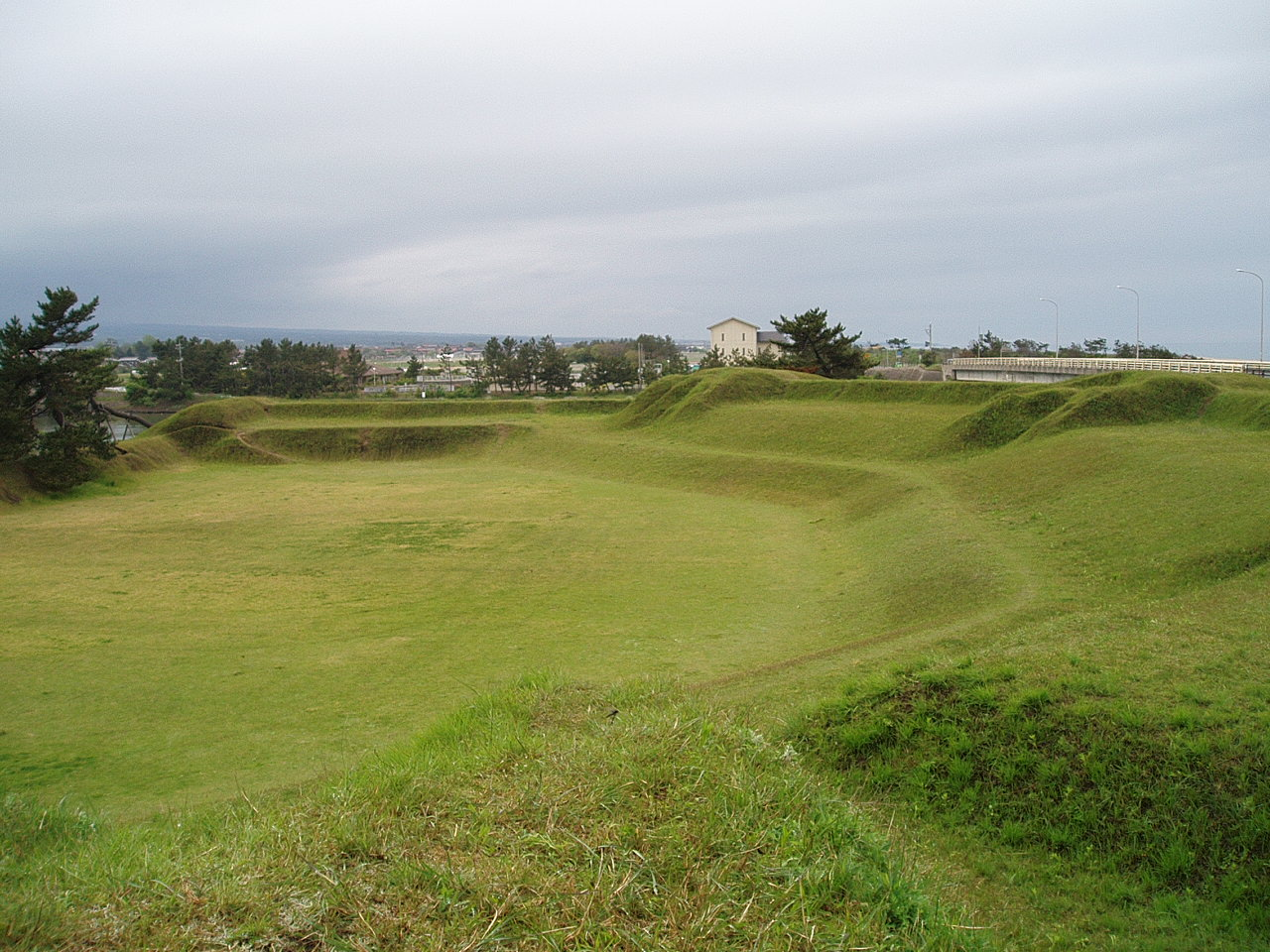 Ruins of Yura Daiba, one of the fortresses constructed by Tottori Domain in the end of Edo Period. Located in Hokuei, Tottori, Japan.